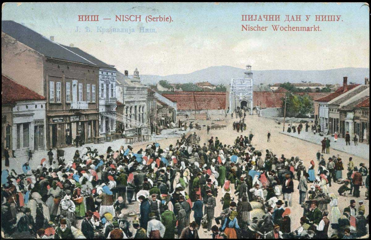 Nisch,Serbie